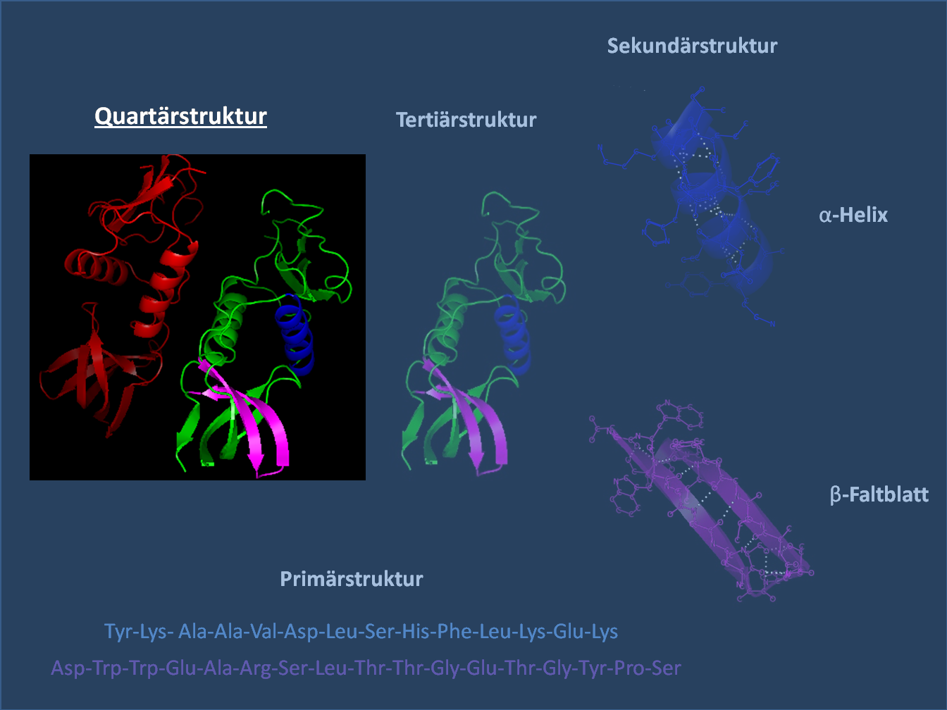 Faltung des Proteins 1EFN mit Fokus auf die Quartärstruktur